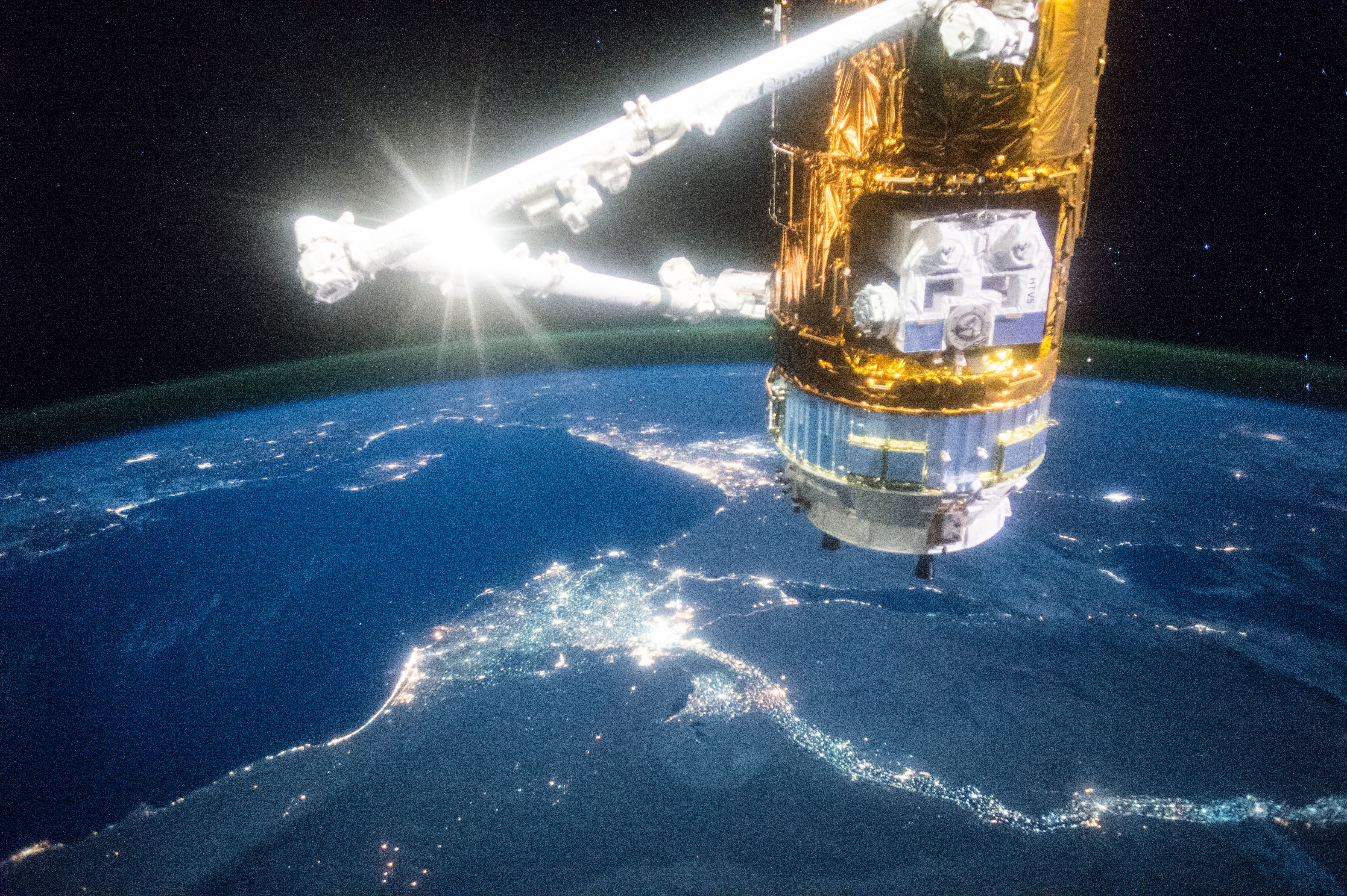 The Japan Aerospace Exploration Agency (JAXA) Kounotori 5 H-II Transfer Vehicle (HTV-5) is seen illuminated during a night pass with the Nile river lit up on the Earth below. The cargo vehicle was berthed to the International Space Station for 5 weeks, being released on Sept. 28, 2015 after delivering almost 5 tons of hardware and supplies.